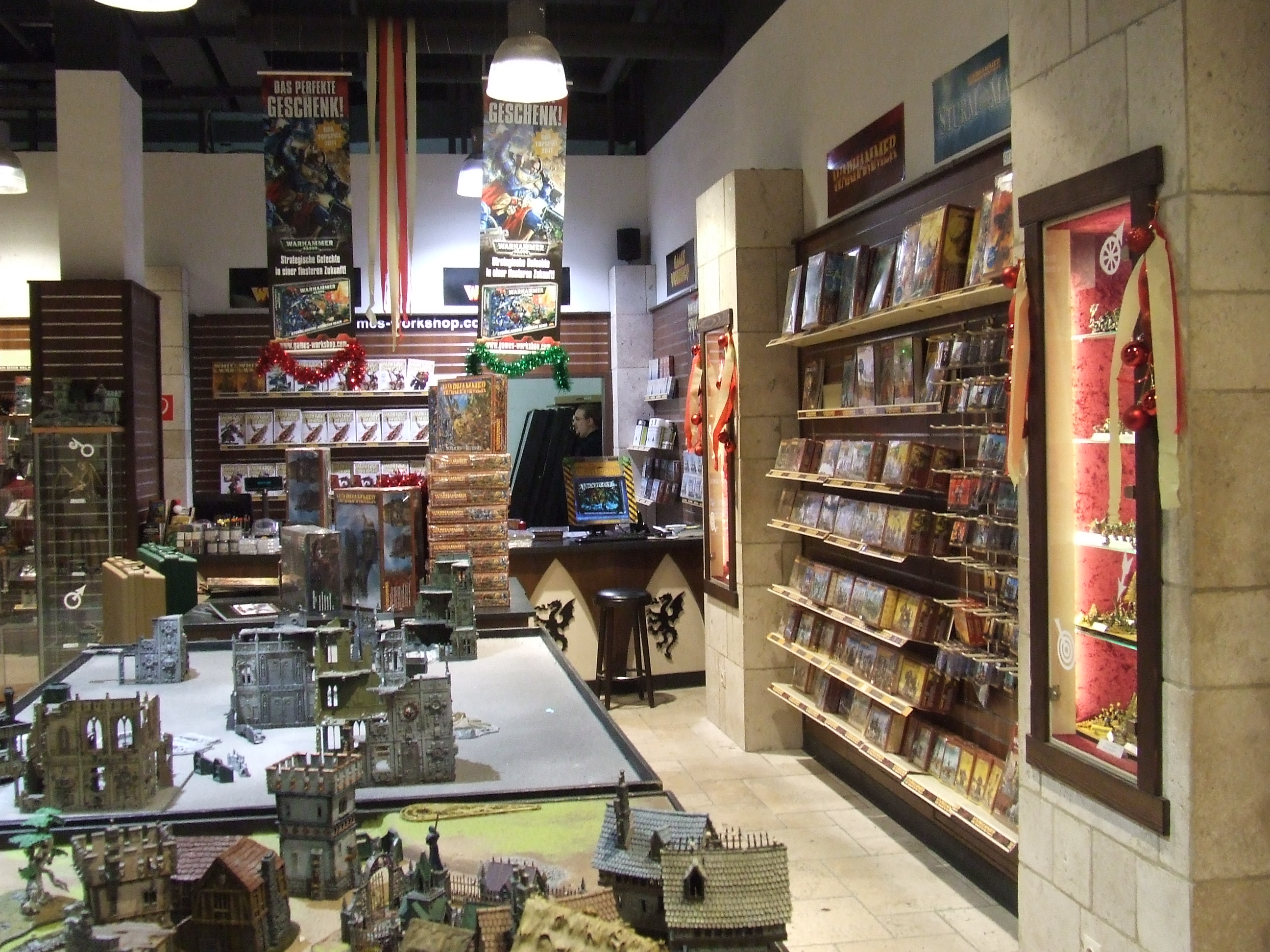 Vienna, Games Workshop